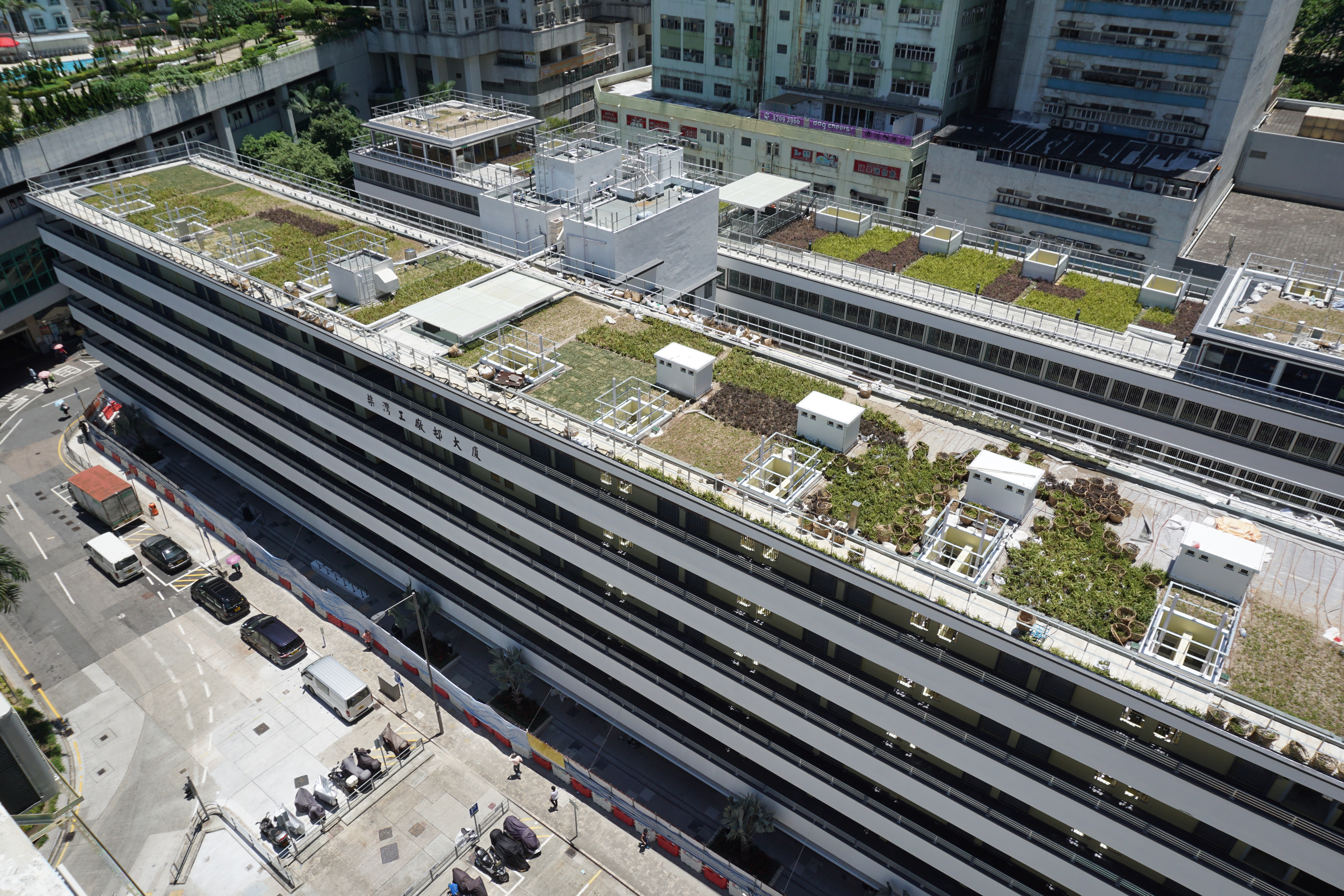 Wah Ha Estate in Chai Wan, Hong Kong.